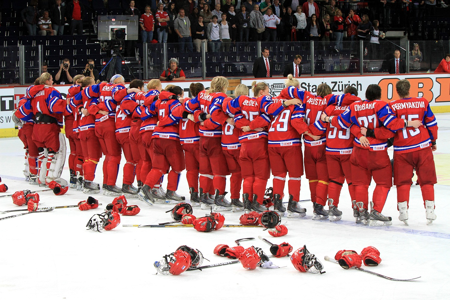 IIHF World Women Championship 2011. Quarterfinal Switzerland - Russia 4-5 OT